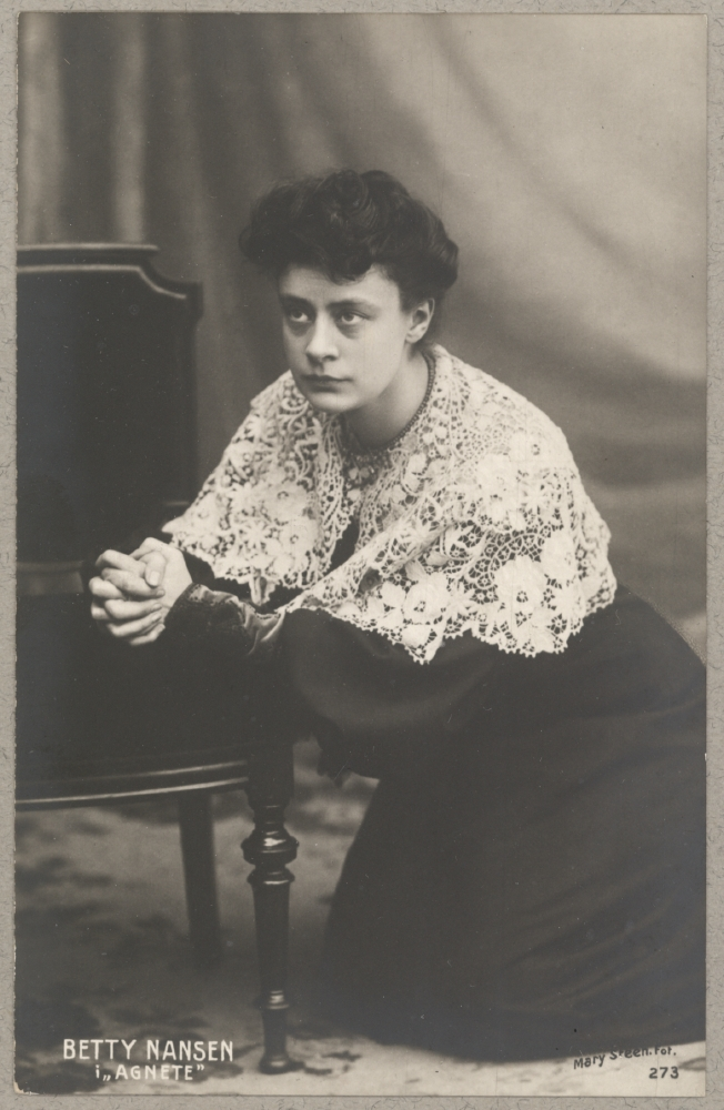 Betty Nansen in Agnete KB id: ke019623 Photo: Mary Steen (1856-1939) Department of Maps, Prints and Photographs, The Royal Library, Denmark.